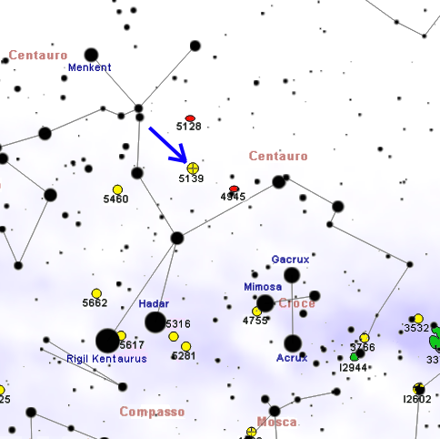 NGC 5139